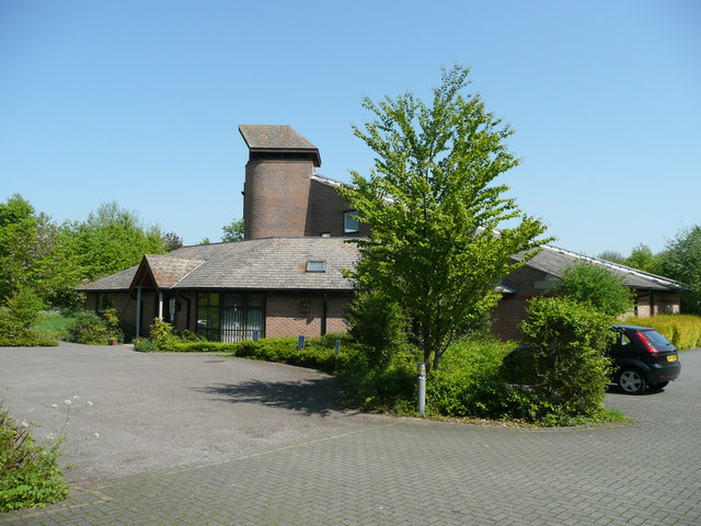 St. Mark's church, Kempshott A modern parish church situated on Homesteads Road serving the sprawling western suburbs of Basingstoke.